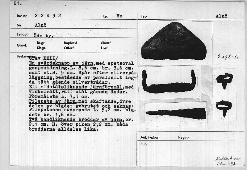 Early discovery of iron crampons